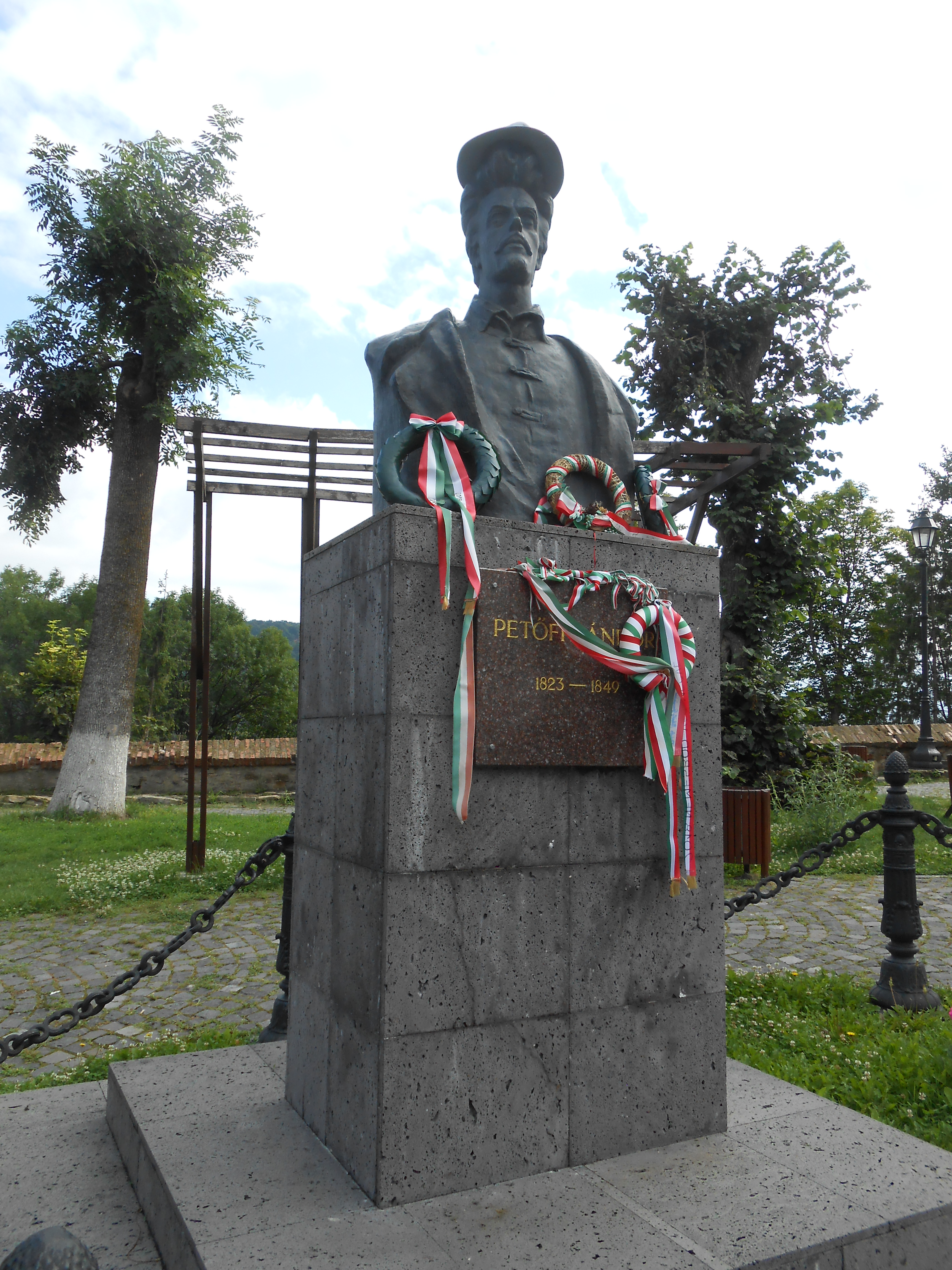 monument to Sándor Petőfi, Sighișoara, Romania